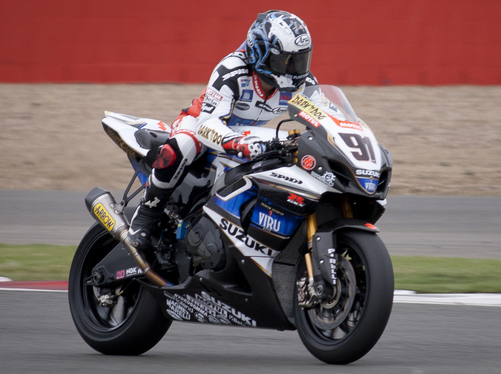 Leon Haslam 2010 SBK Silverstone